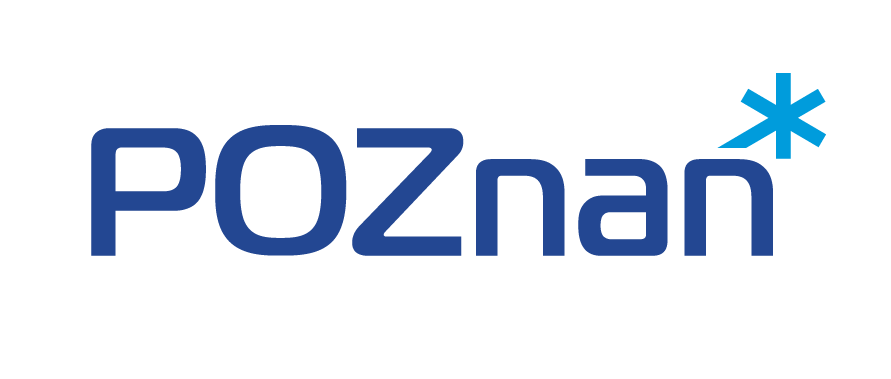 Poznań city logo